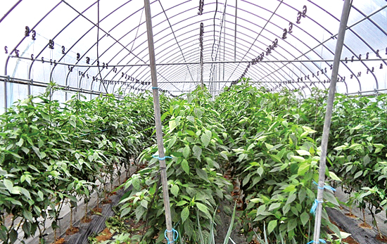 Cheongyang chili peppers